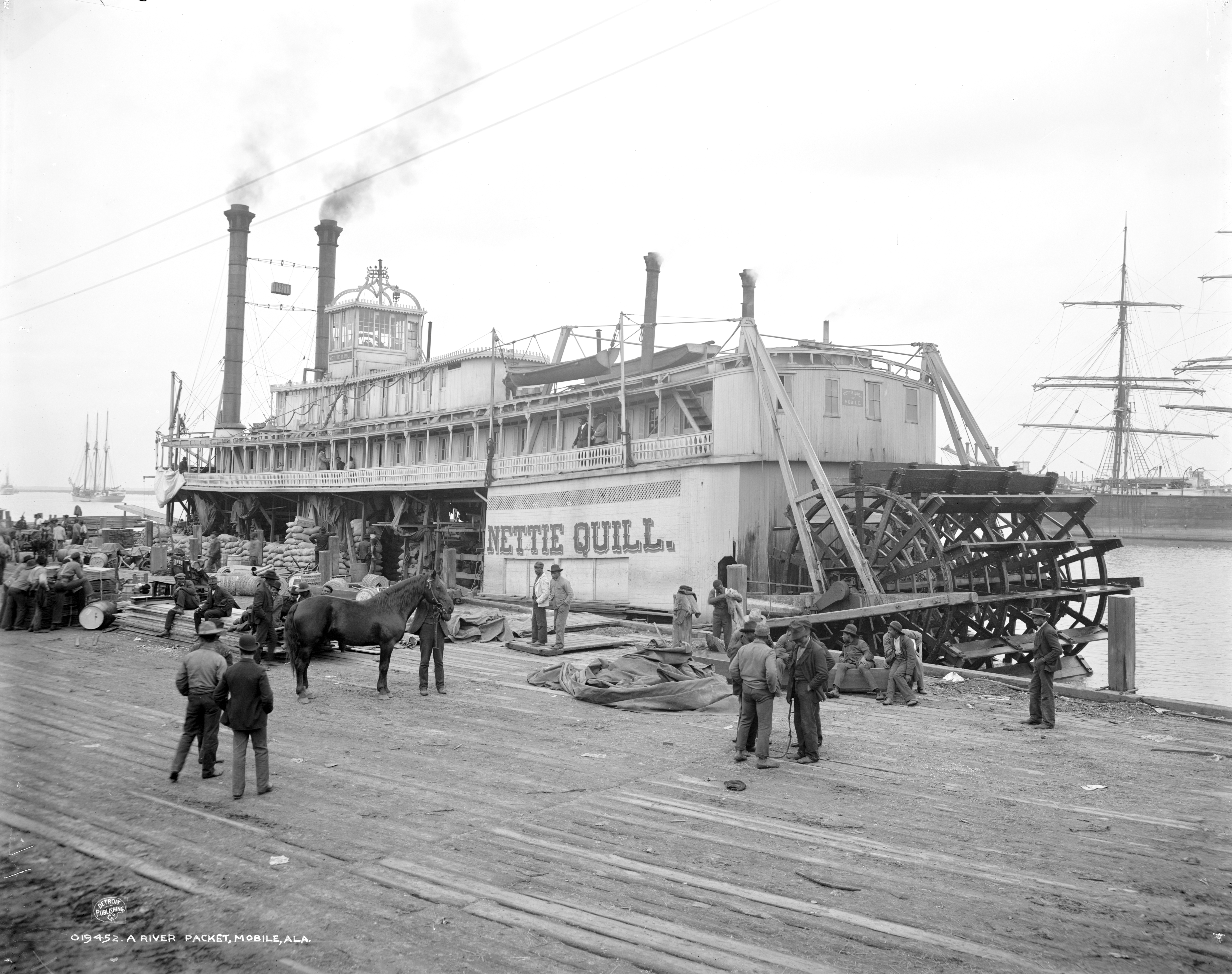 A River packet, Mobile, Ala.